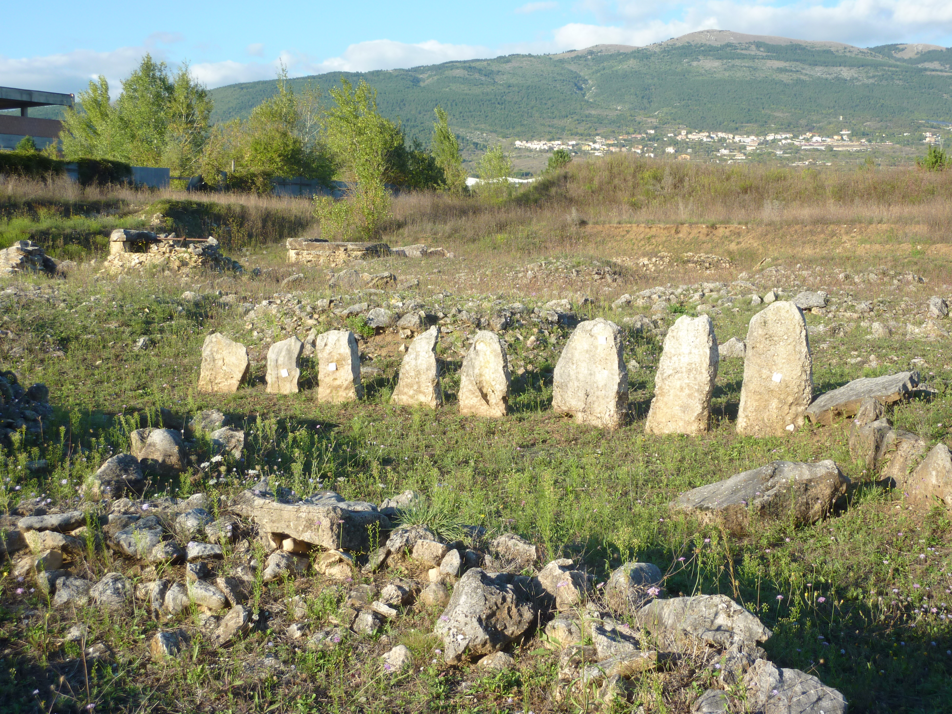 Fossa (AQ): Necropoli